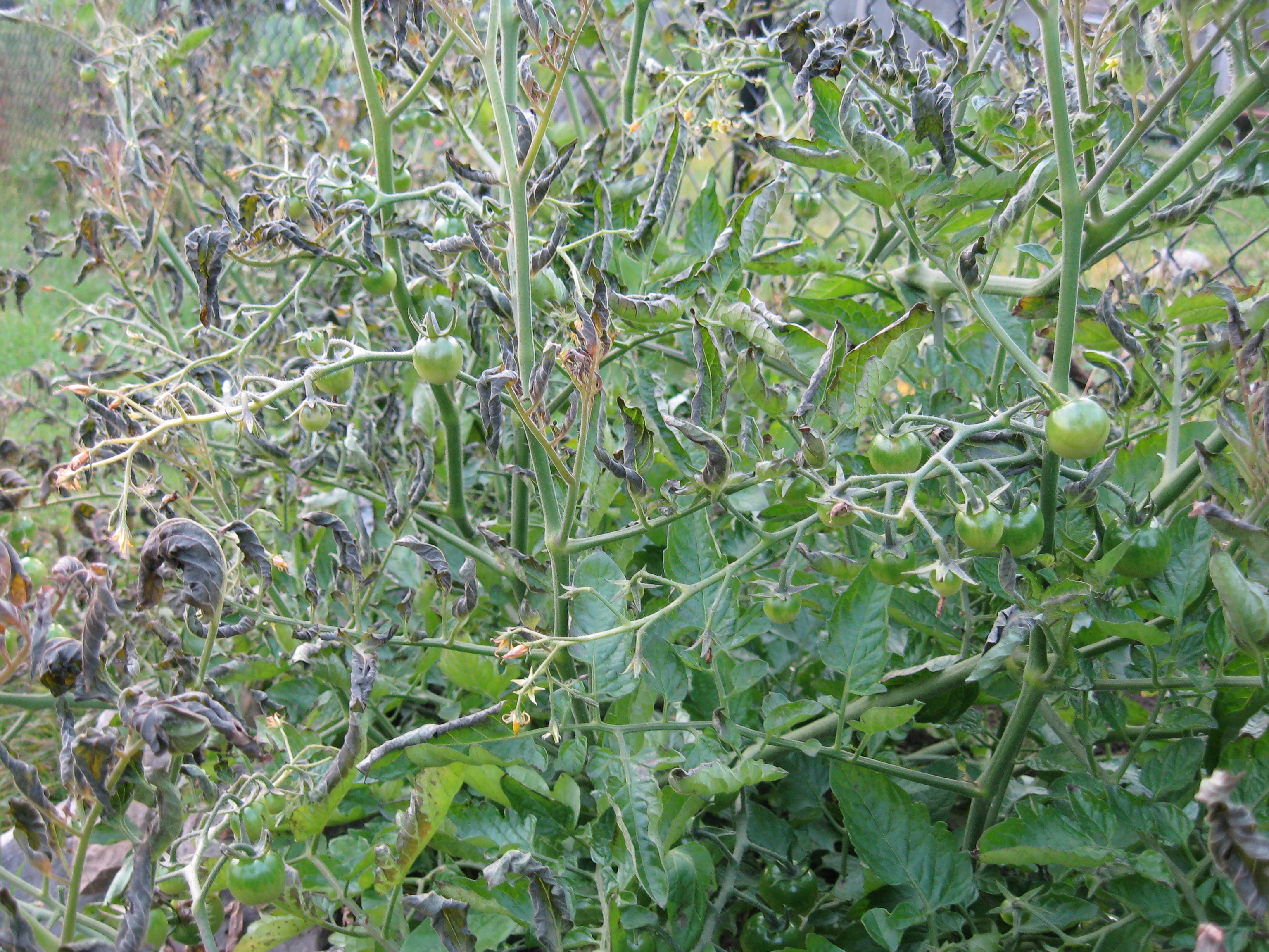 Effect of frost on cherry tomato